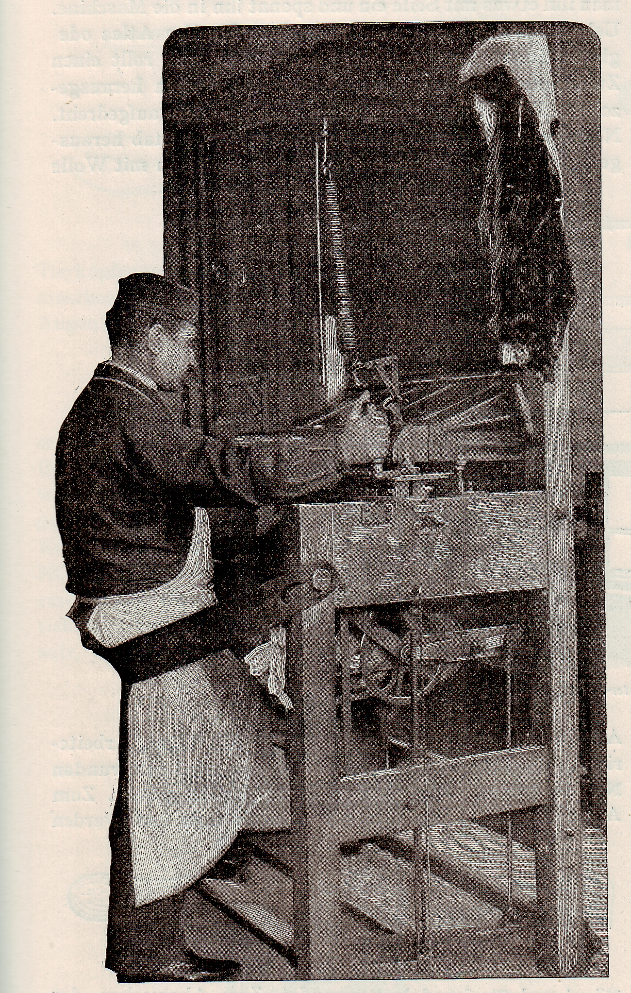 Machine to remove water-hairs from seal, otter, beaver, rabbit skins etc.